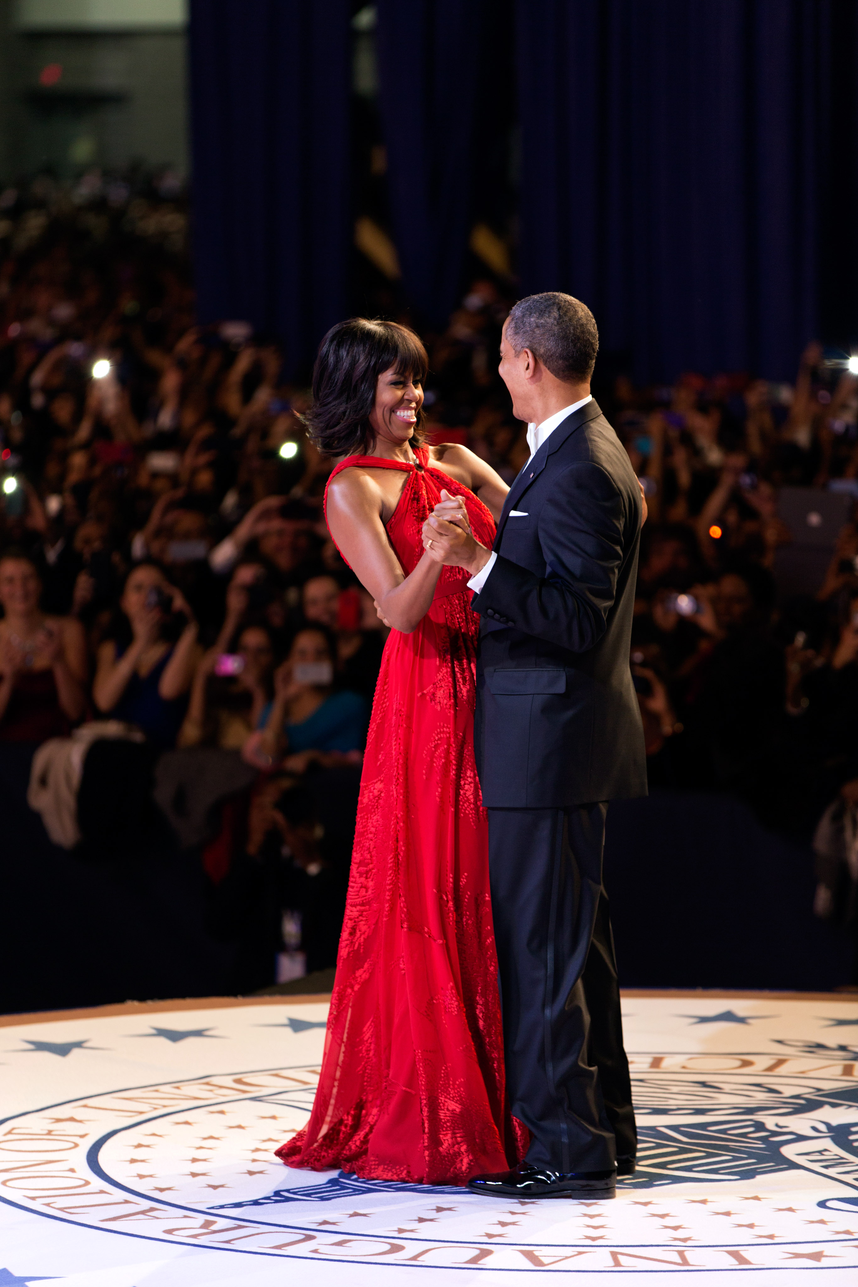 United States President Barack Obama and First Lady Michelle Obama dance together during the inaugural ball at the Walter E. Washington Convention Center in Washington, D.C. on 21 January 2013.